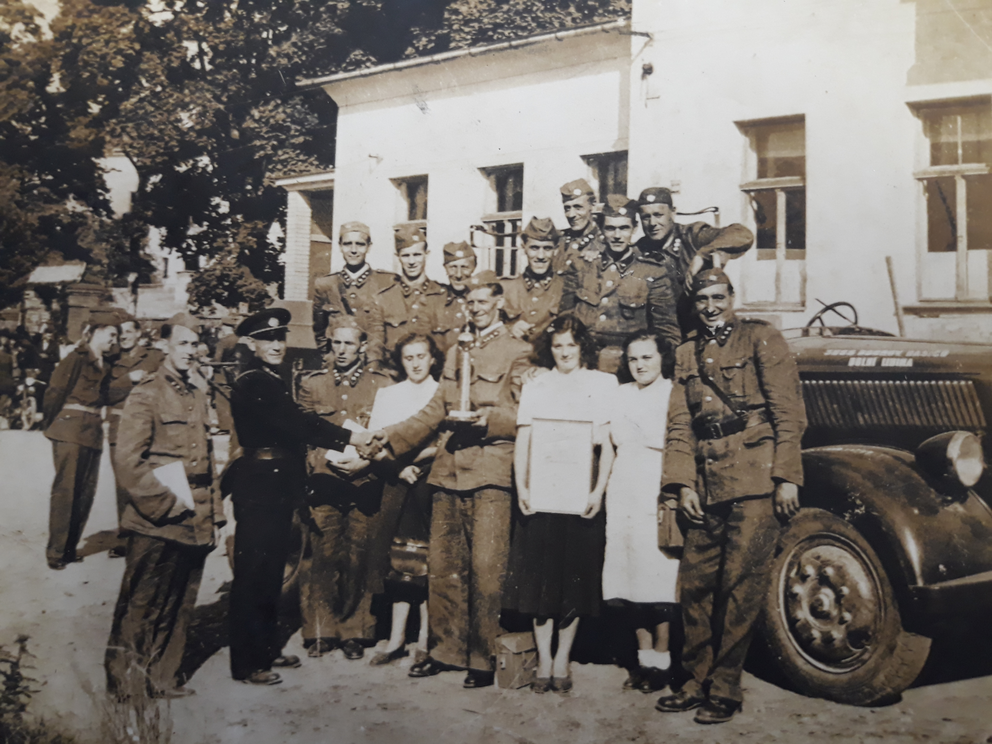 Okresní sjezd hasičstva ve Šternberku v roce 1951 - 2. místo Sbor dobrovolných hasičů Dolní Libina, společné foto (ženy na snímku - samaritánská služba)